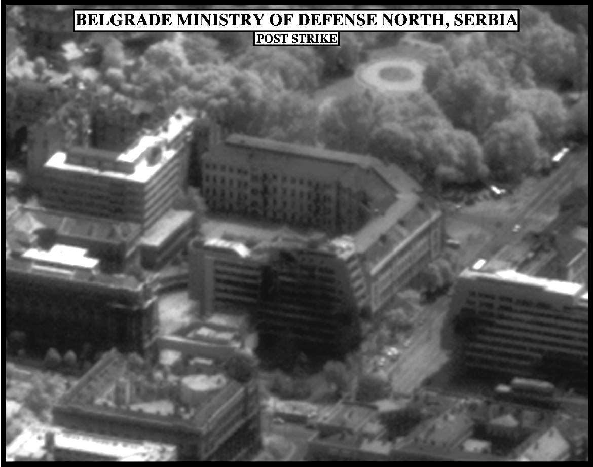 Post-strike bomb damage assessment photograph of the Belgrade Ministry of Defense North, Serbia, used by Joint Staff Vice Director for Strategic Plans and Policy Maj. Gen. Charles F. Wald, U.S. Air Force, during a press briefing on NATO Operation Allied Force in the Pentagon on May 14, 1999.